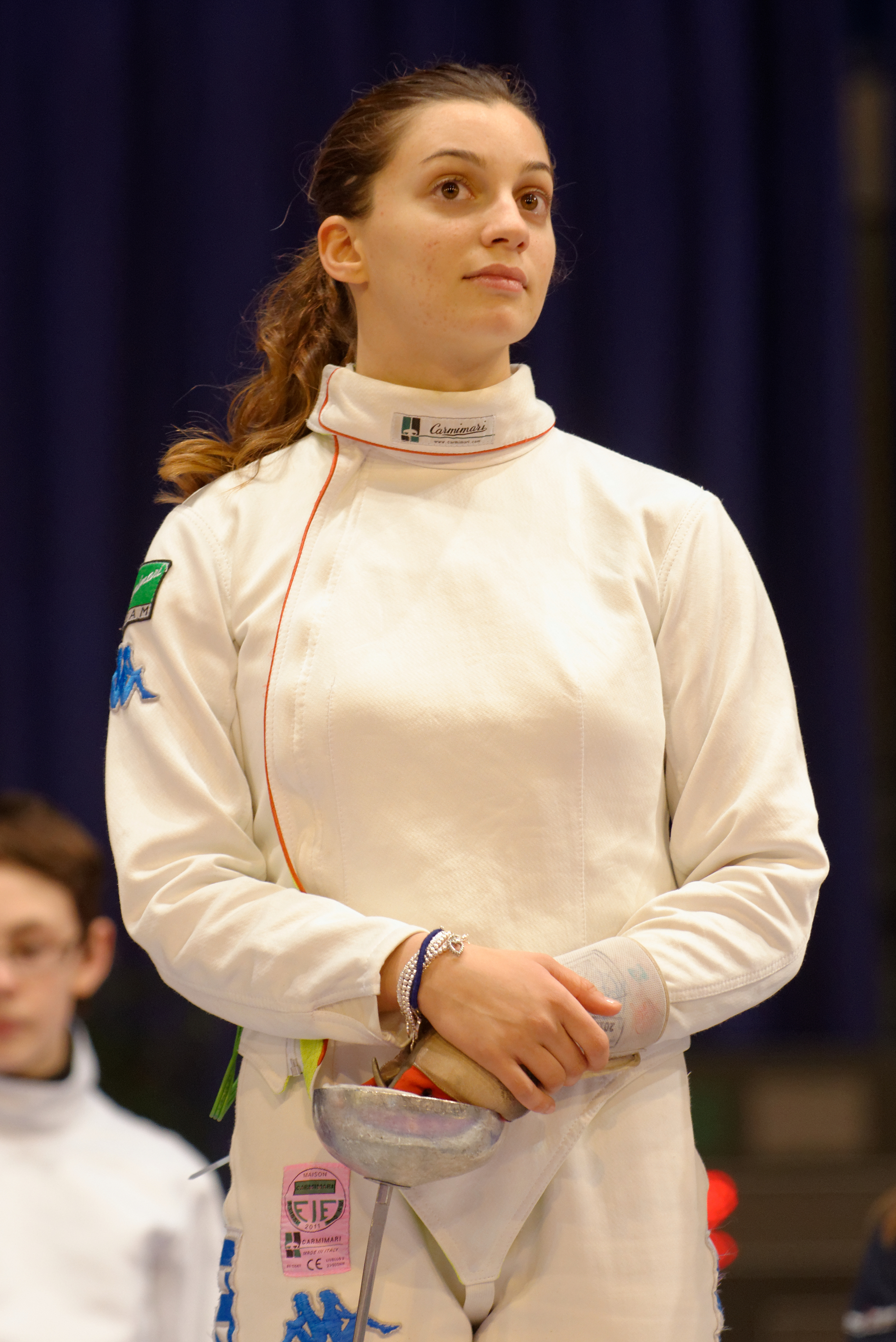 Rossella Fiamingo at the Challenge international de Saint-Maur 2013, women's épée World Cup tournament.